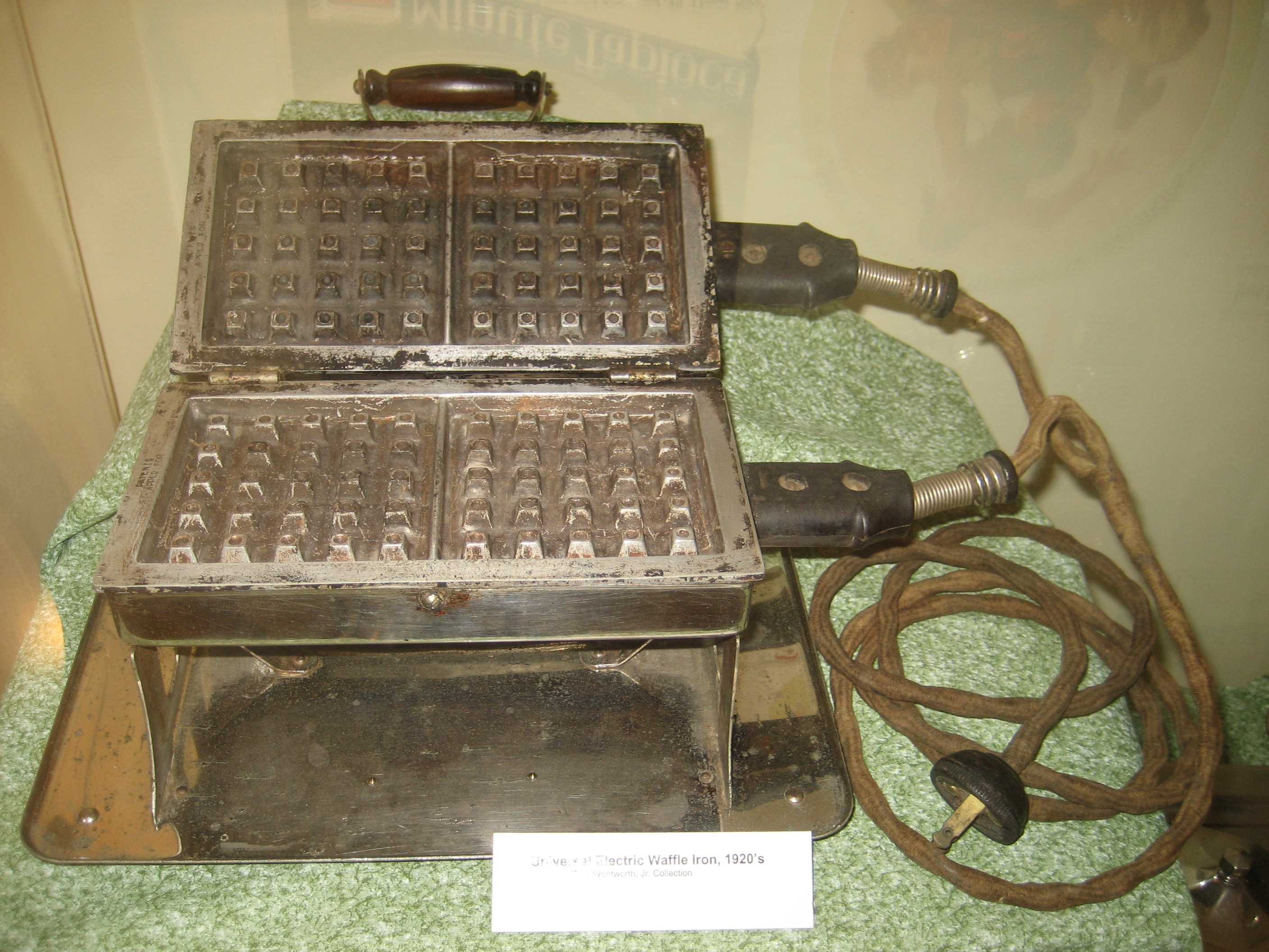 Pensacola, Florida. Historic district museum complex. House museum display of 1920s furnishings and technology. Electric waffle maker.